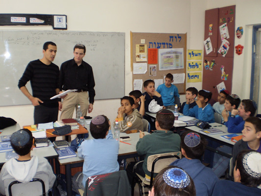 A picture of the Environmental Clinic students, during a lesson